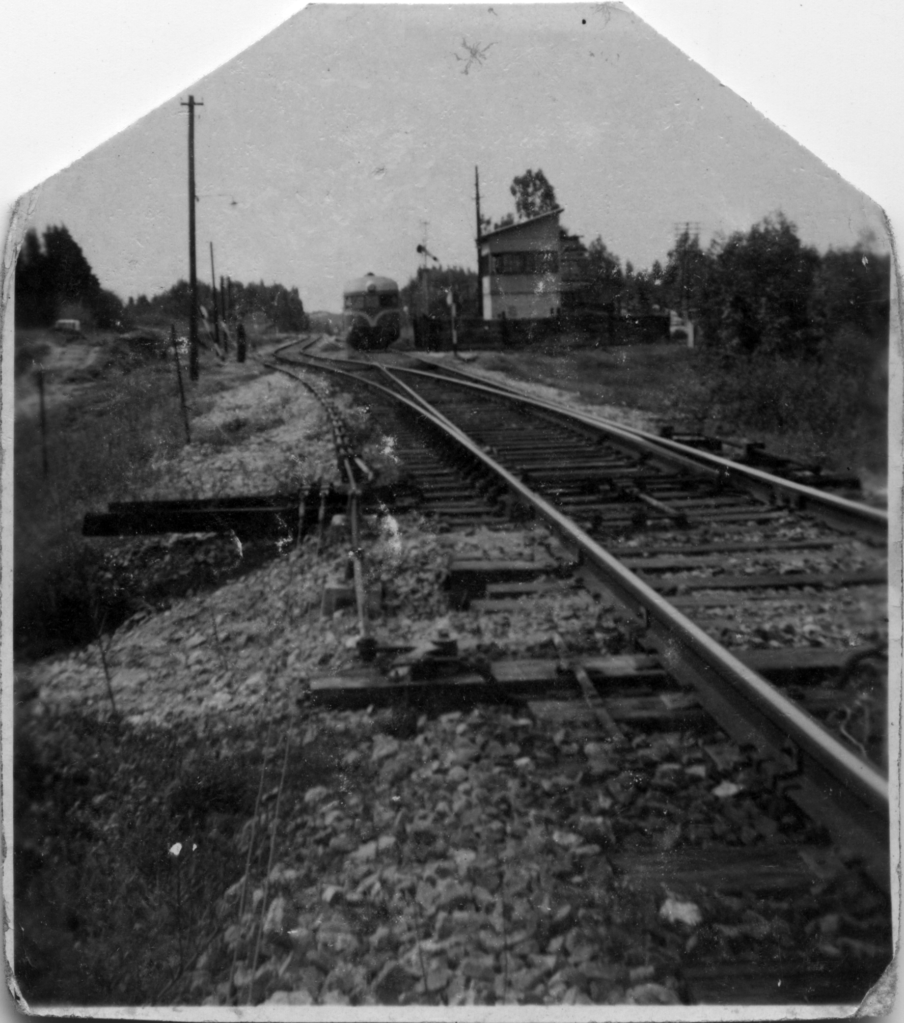 Remez junction at the early 60's. Maschinenfabrik Esslingen. Photo by Nachman Blum's collection at Israel Railways archive.